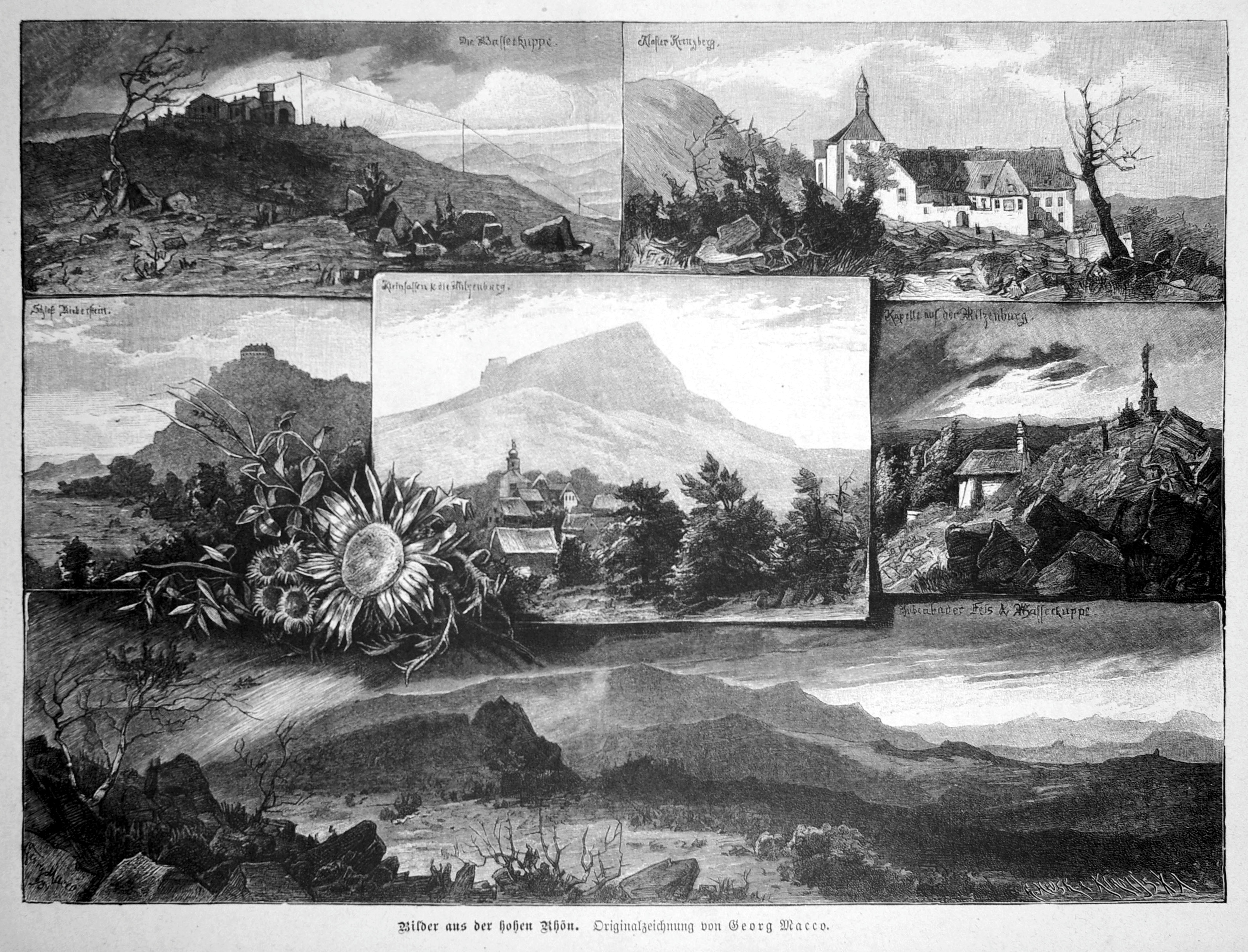 Page 569 from journal Die Gartenlaube for 1885. Extracted image (if any): File:Die Gartenlaube (1885) b 569.jpg - hi res, ~2.5 MB.